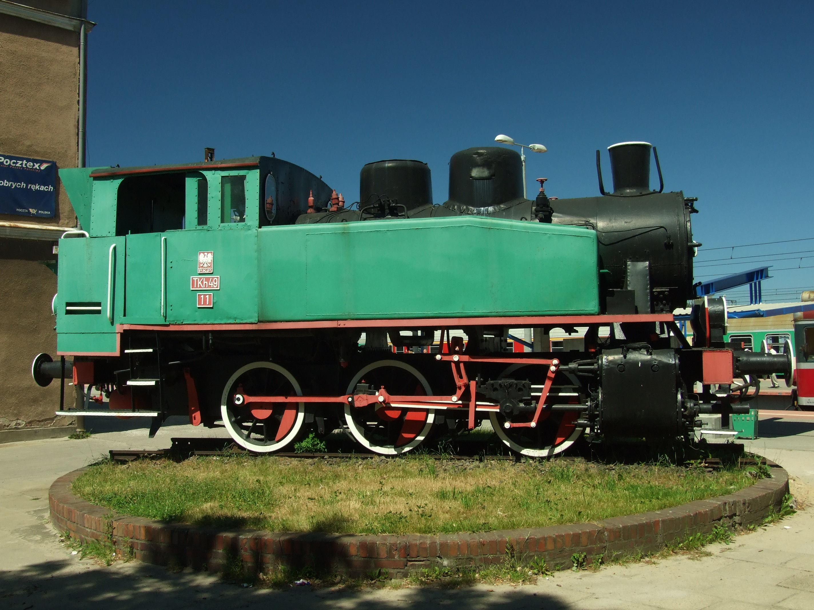 Small steam engine on public display at Tczew main train station, Poland